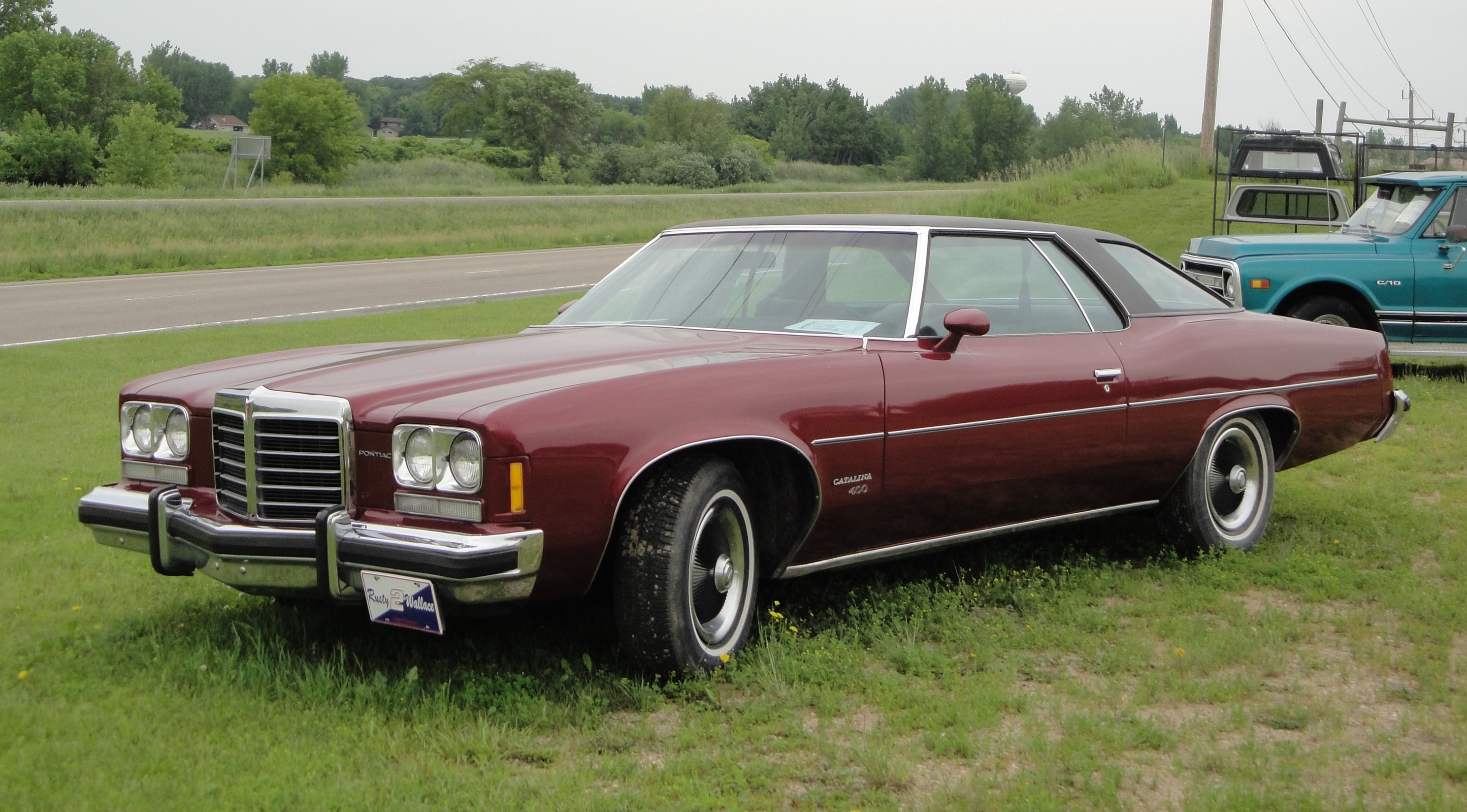 1974 Pontiac Catalina 400 (2-barrel) in Honduras Maroon and Black, in New London, Minnesota.